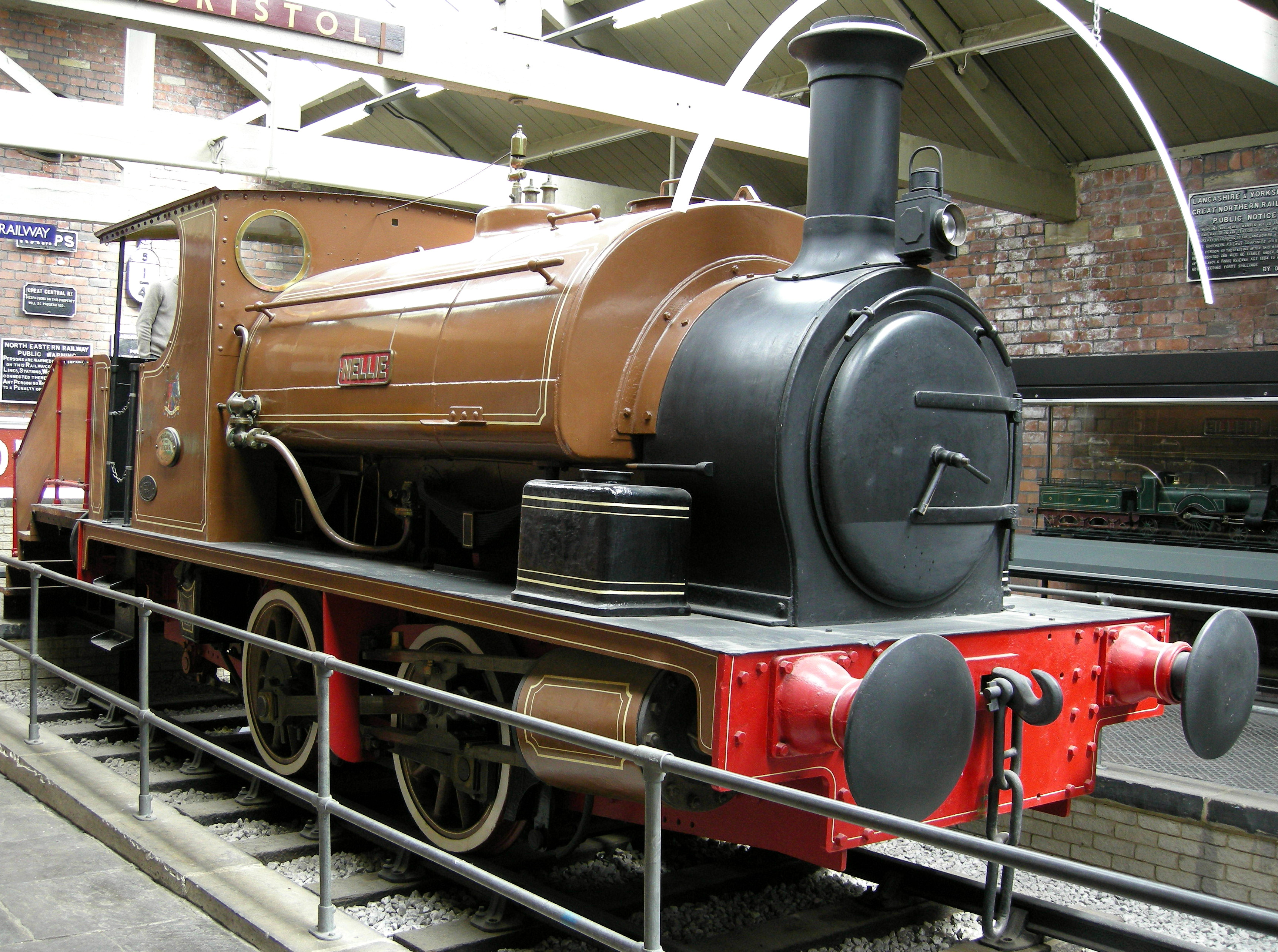 Hudswell Clark steam locomotive in transport gallery at Bradford Industrial Museum, Bradford, West Yorkshire, England. 53.48'.40".N; 1.43'.16".W. 0-4-0 saddle tank industrial locomotive built 1922, named 1435 Nellie after Nellie Crane, wife of Vicar of Esholt.